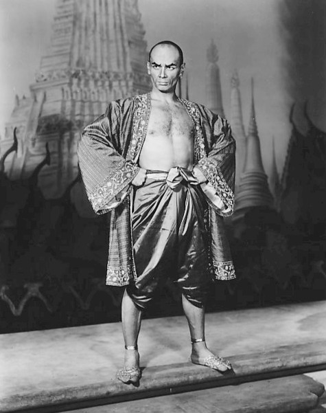 Photo of Yul Brynner from the Broadway play The King and I.